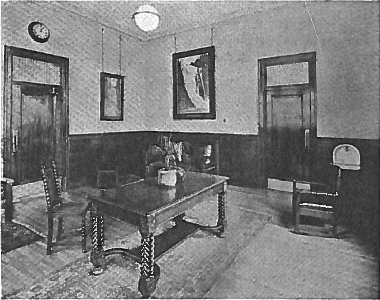 View of the woman's waiting room, CPR North Toronto station.